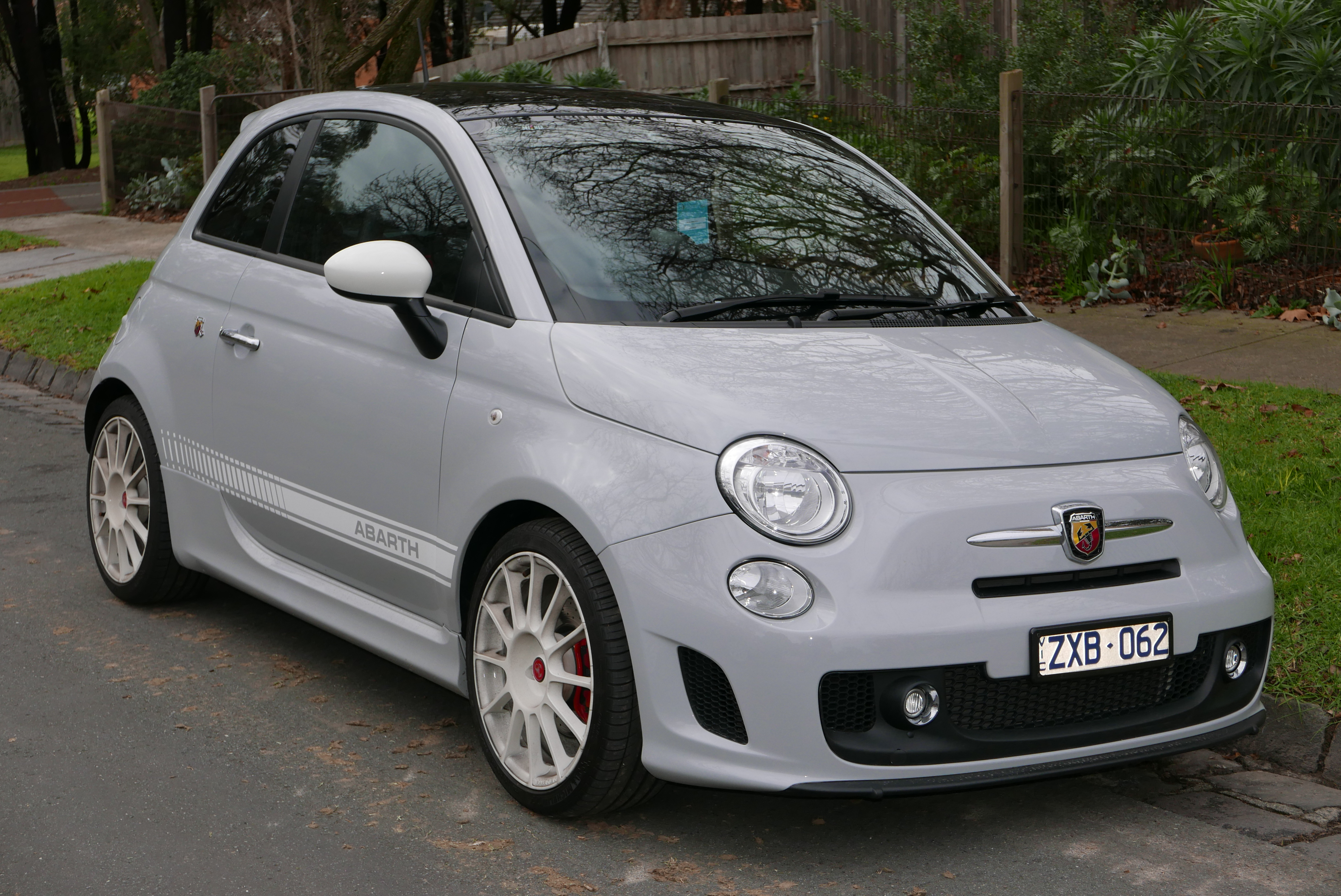 2013 Abarth 500 Esseesse hatchback. Photographed in Kew, Victoria, Australia. Vehicle registration enquiry results Jurisdiction Victoria Registration ZXB062 Chassis code ZFA31200000931391 Engine code 312A10001784760 Compliance date 2013-03 Year of manufacture 2013